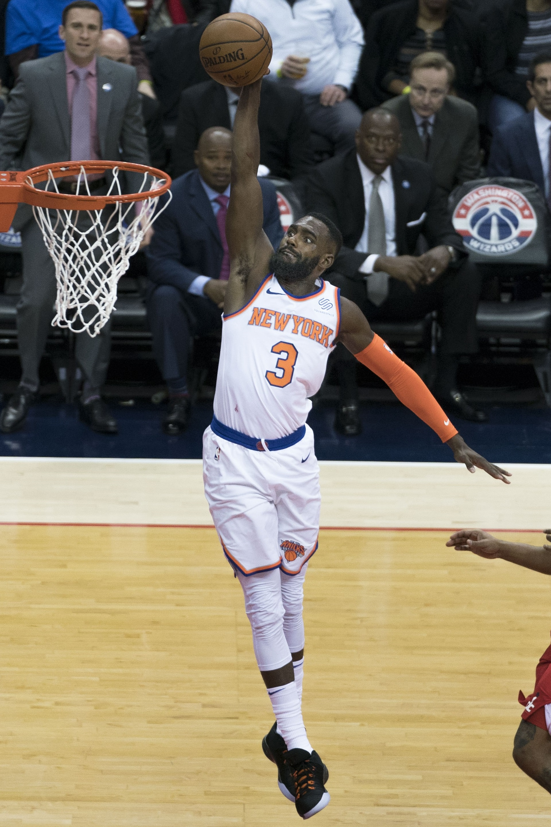 Knicks at Wizards 3/25/18